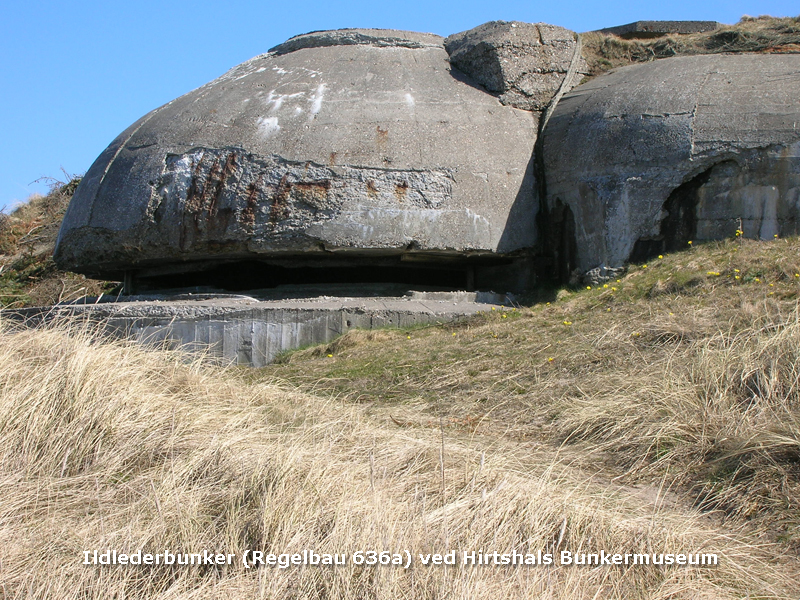 Command post bunker at 10. battery (Regelbau 636a), Hirtshals Øst, Denmark